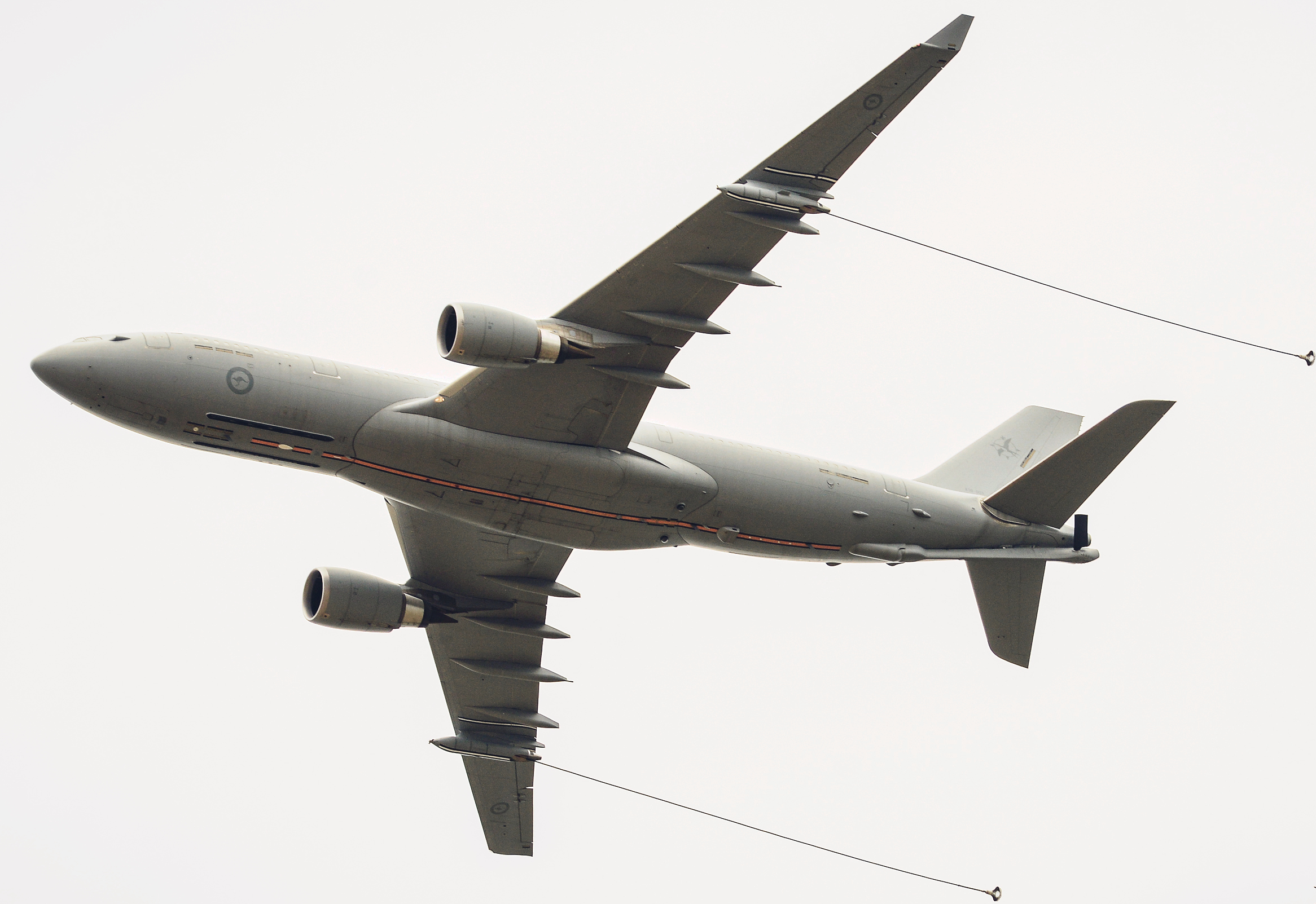 Centenary of Military Aviation 2014 Air Show (RAAF Williams, Point Cook)